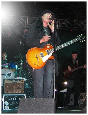 Randy Simcox - I own this photo, I made this photo, Please give proper aknowledgment if using.